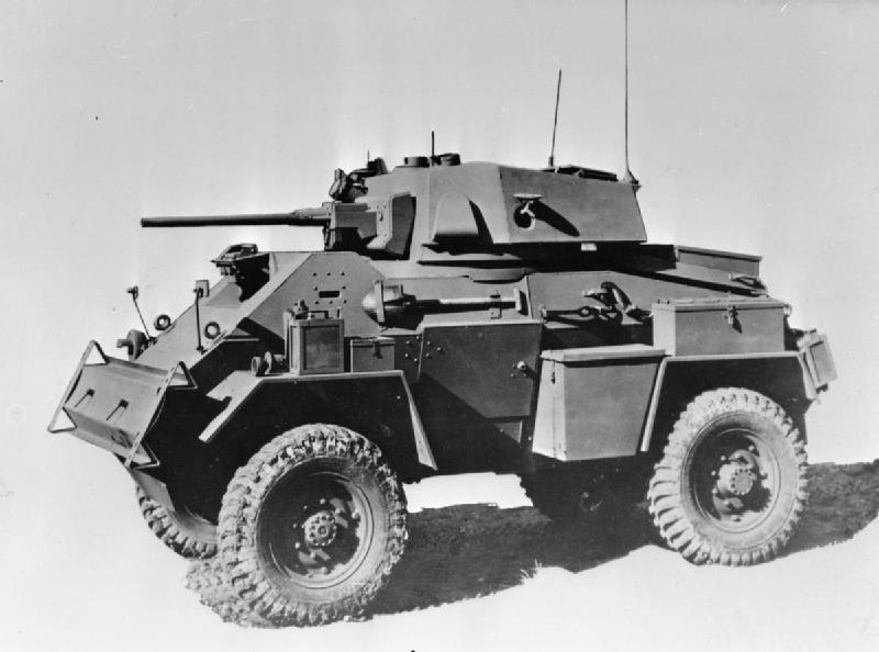 Tanks and Afvs of the British Army 1939-45 Humber Mk IV armoured car